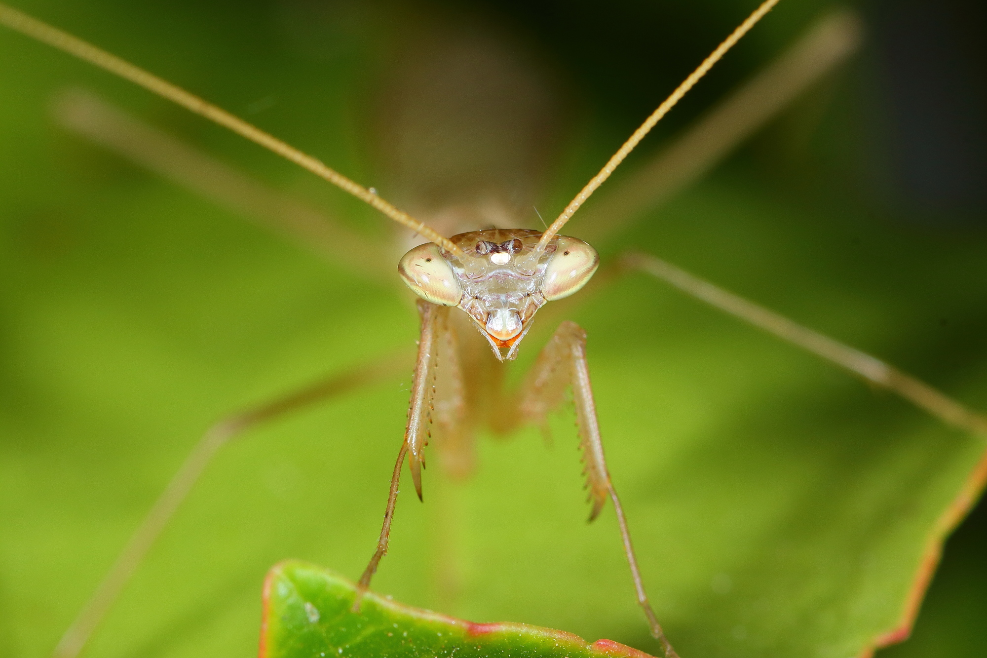 Miomantis paycullii. Head frontal view. Note the conical, prominent and striped eyes.